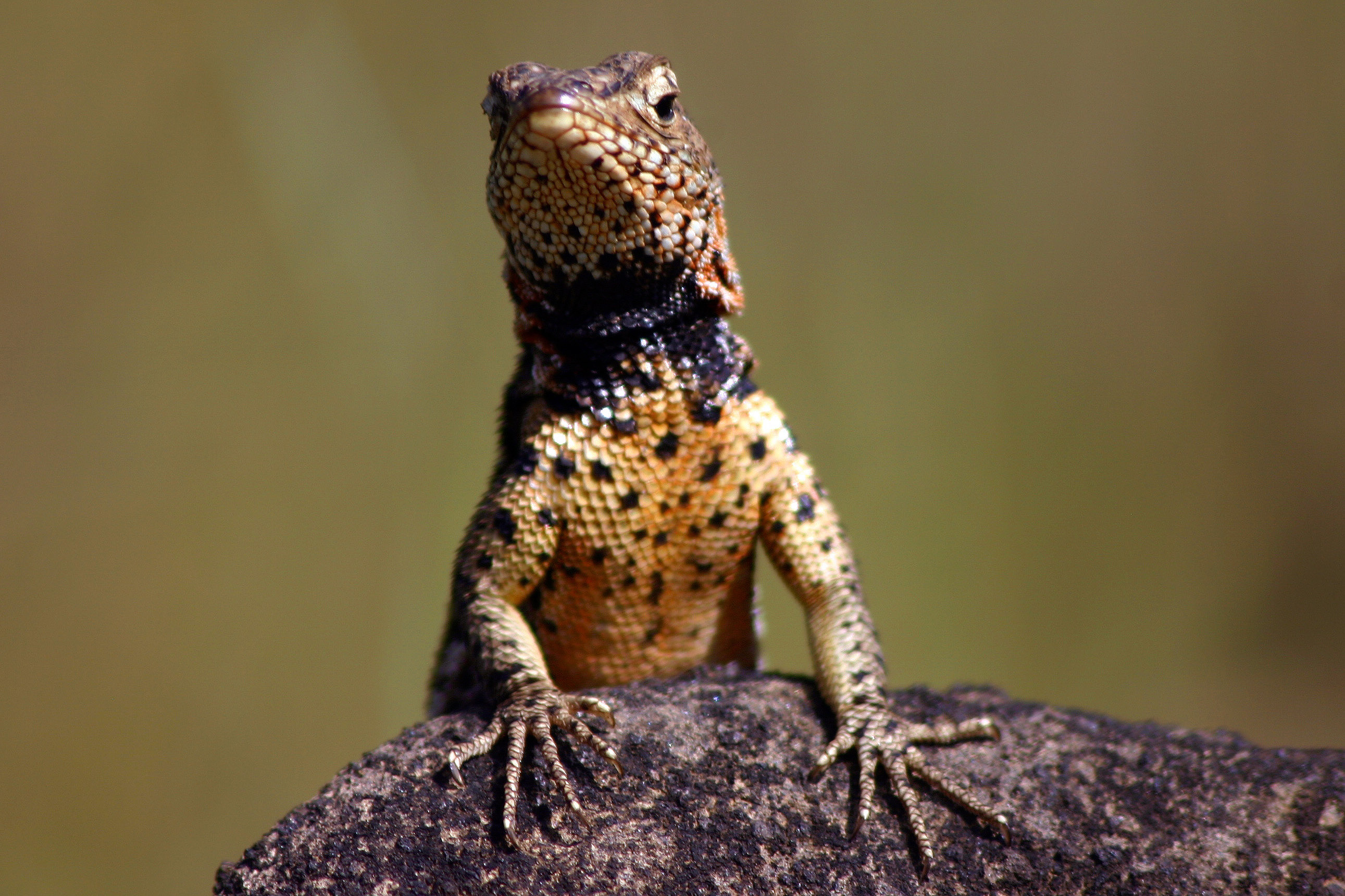 A male lava lizard (Microlophus albemarlensis) sometimes classified Microlophus jacobi. Endemic to Santiago Island in the Galápagos.